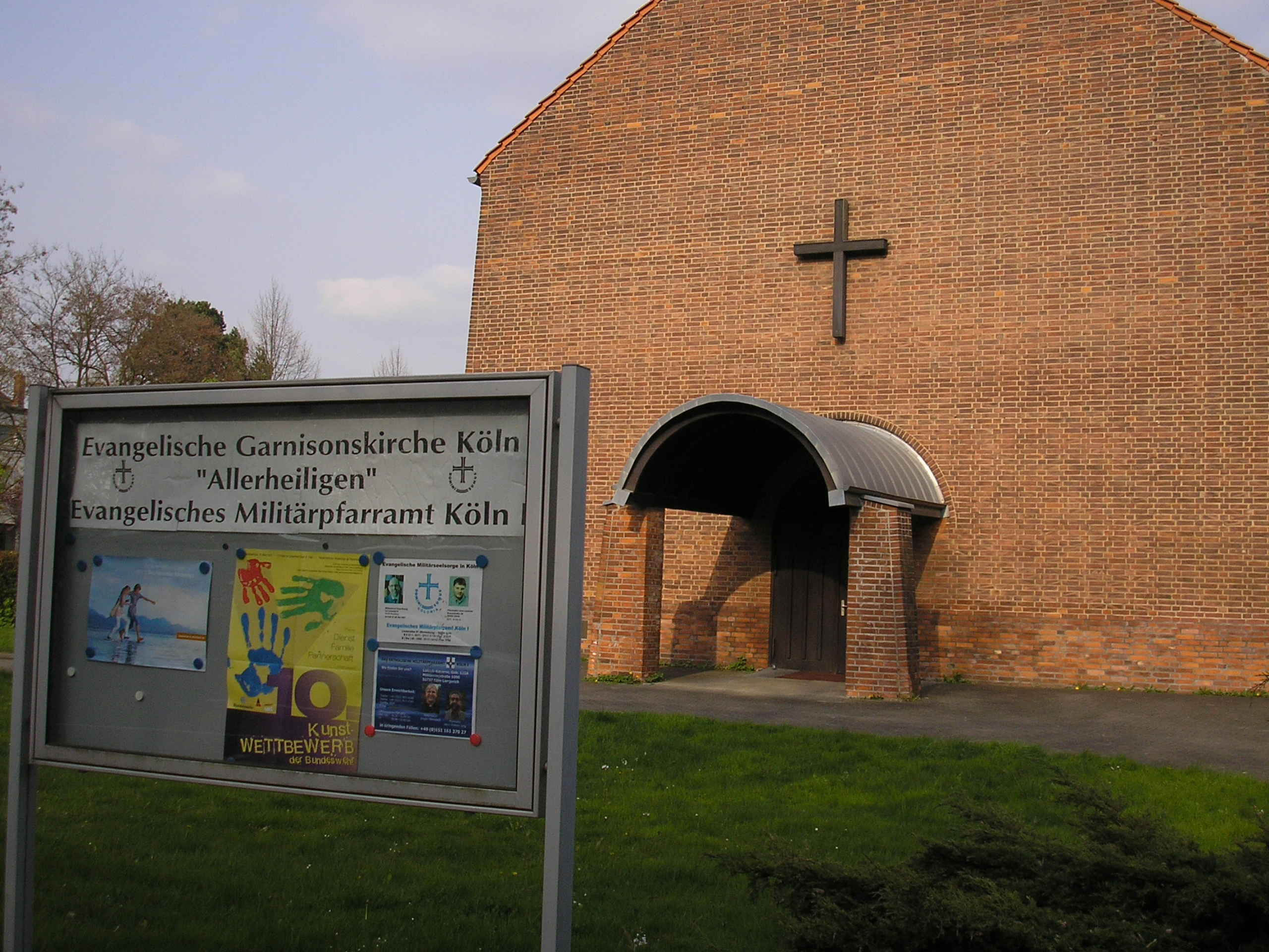 All Saints Church, Cologne-Marienburg